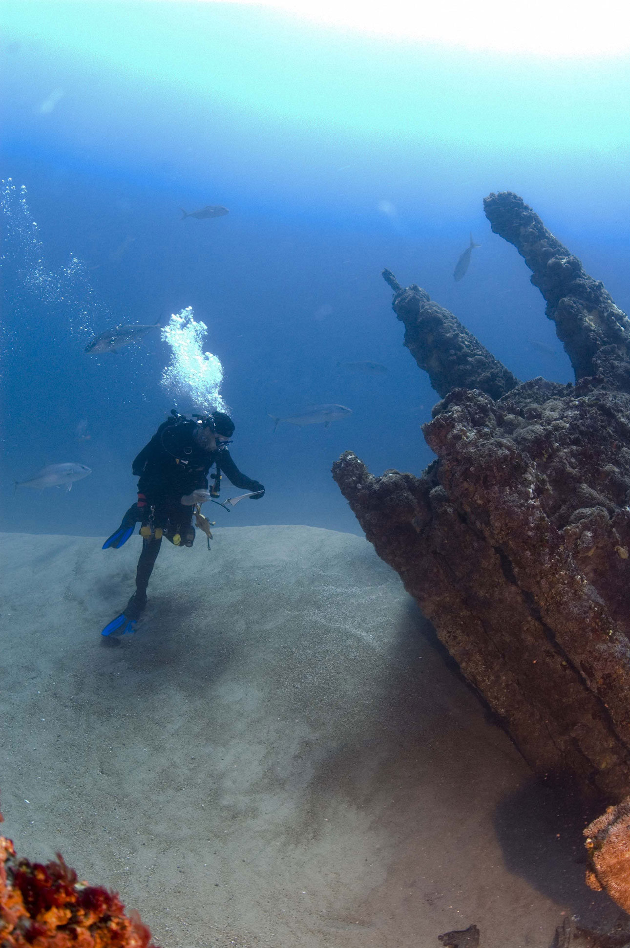 A scientist from the Minerals Management Service surveys the German U-boat U-701 during the Battle of the Atlantic Expedition Summer 2008 off the coast of North Carolina. The 2008 summer expedition was the first part of a larger multi-year project to research and document a number of historically significant shipwrecks tragically lost during WWII. The project is dedicated to raising awareness of the war that was fought so close to the American coastline and to preserving our nation's maritime history. To learn more about preserving our maritime heritage in national marine sanctuaries, visit: Office of National Marine Sanctuaries What is a National Marine Sanctuary? , ( Diving Deeper audio podcast ) Sanctuary Added to the National Register of Historic Places , ( Making Waves audio podcast ) (Original source: National Ocean Service Image Gallery )